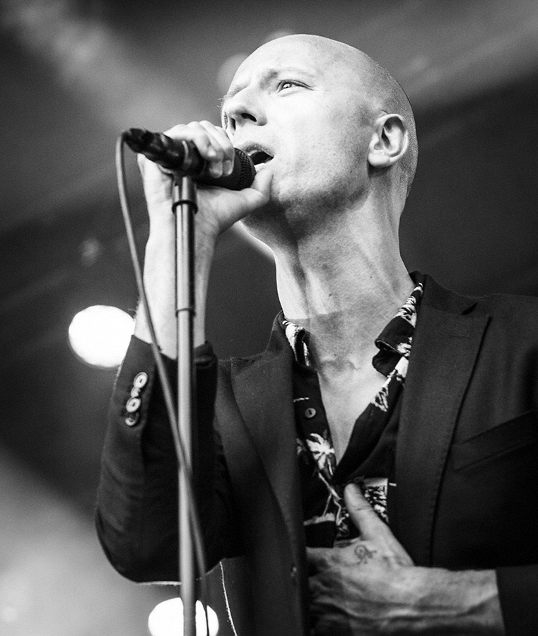 Sivert Høyem performs at Piknik i Parken in Oslo on 25. June 2016. Lineup:Sivert Høyem (vocal)Unknown (guitar)Unknown (guitar)Unknown (bass)Unknown (drums)